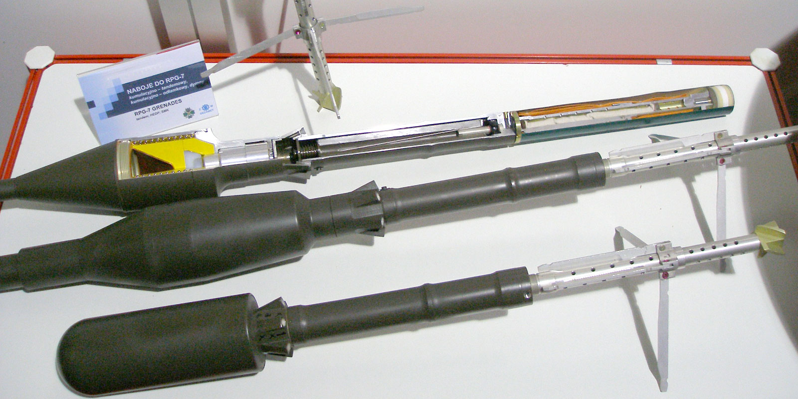 RPG-7 ammo